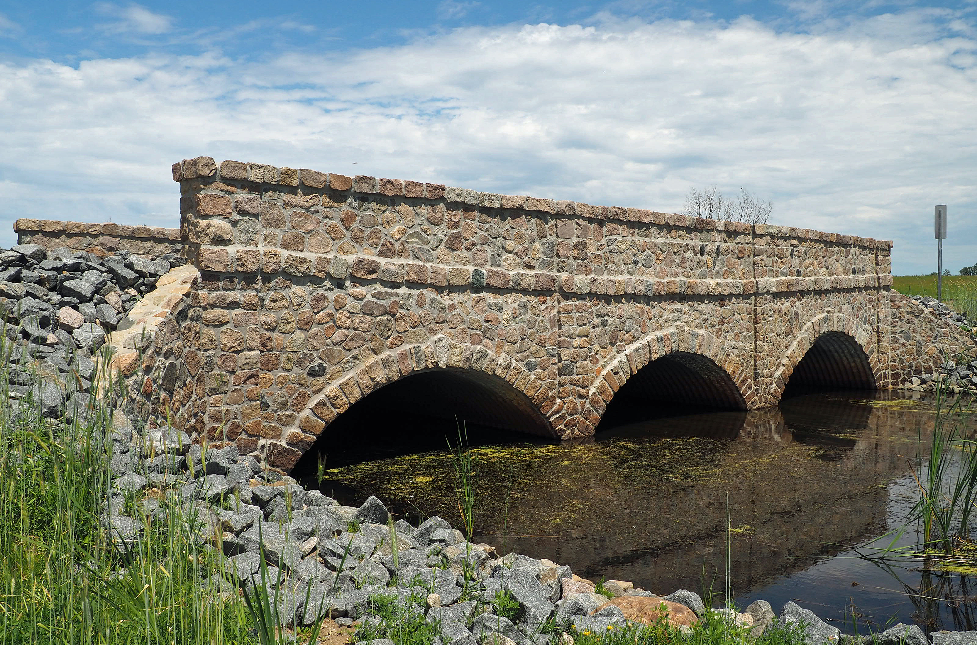 Bridge L7075, 290th St. over Turtle Creek, Hartford Township, Minnesota, USA. Viewed from the southwest.